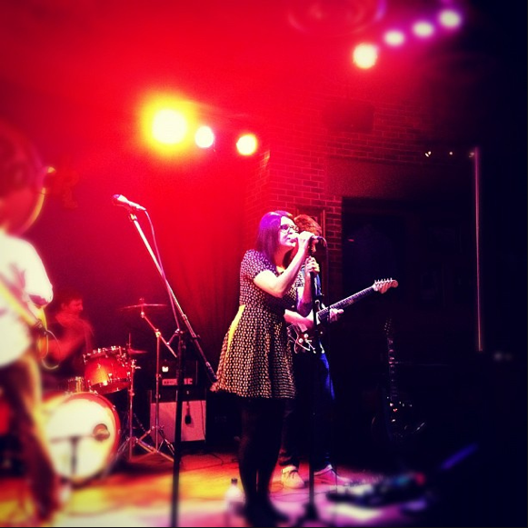 This is an image of the band Loyal Wife performing live in Phoenix, Arizona. Other information No other information necessary.